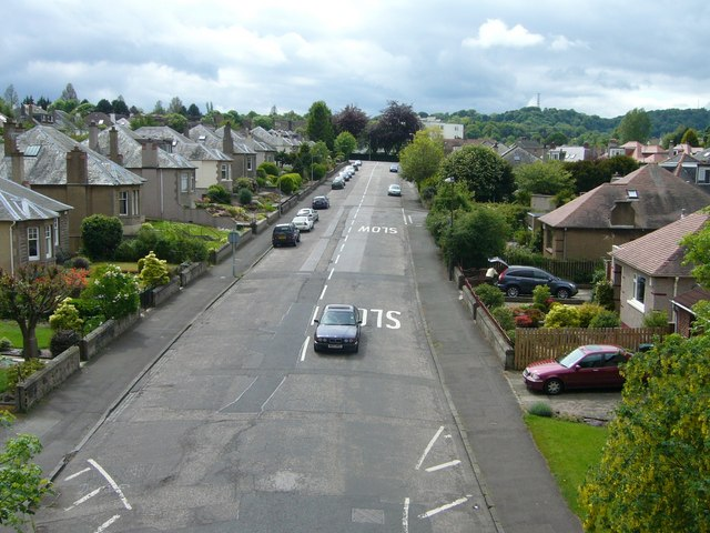 Craigleith Drive Looking from the old railway bridge on the modern cycle path.